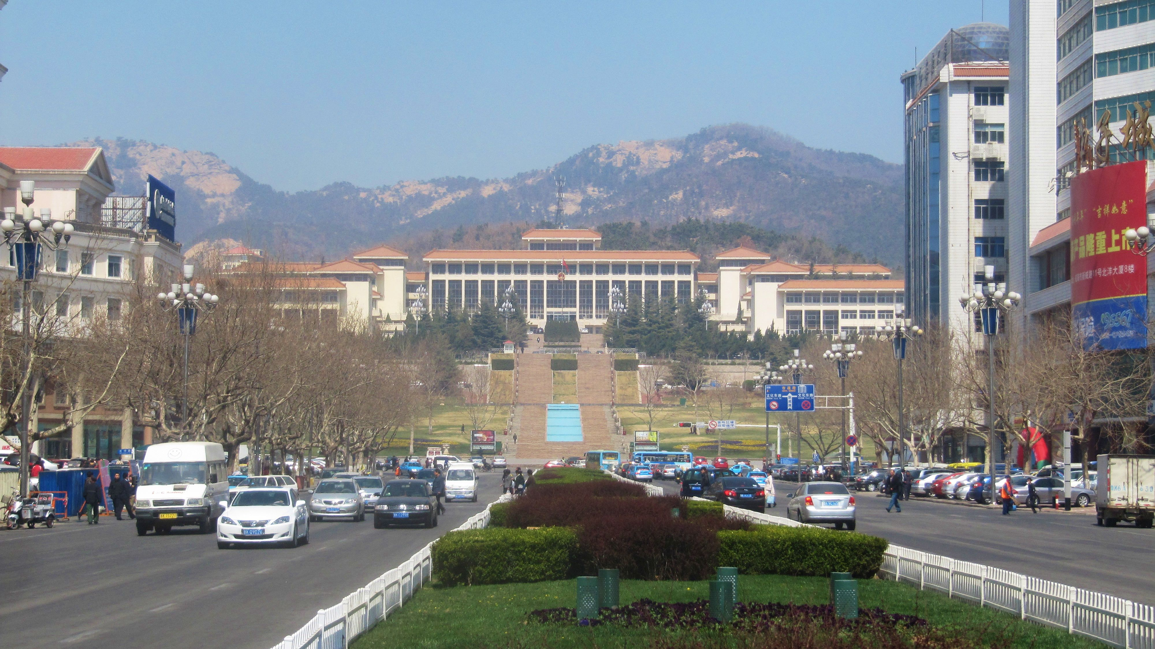 Weihai Townhall building, Shandong Province, China.